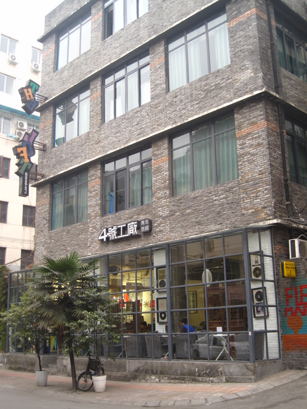 The Loft Hostel in Chengdu China